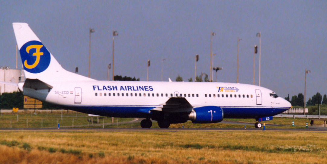 A Flash Airlines Boeing 737-3Q8 (SU-ZCD) at Charles de Gaulle Airport, on the taxiway linking the northern and southern runways